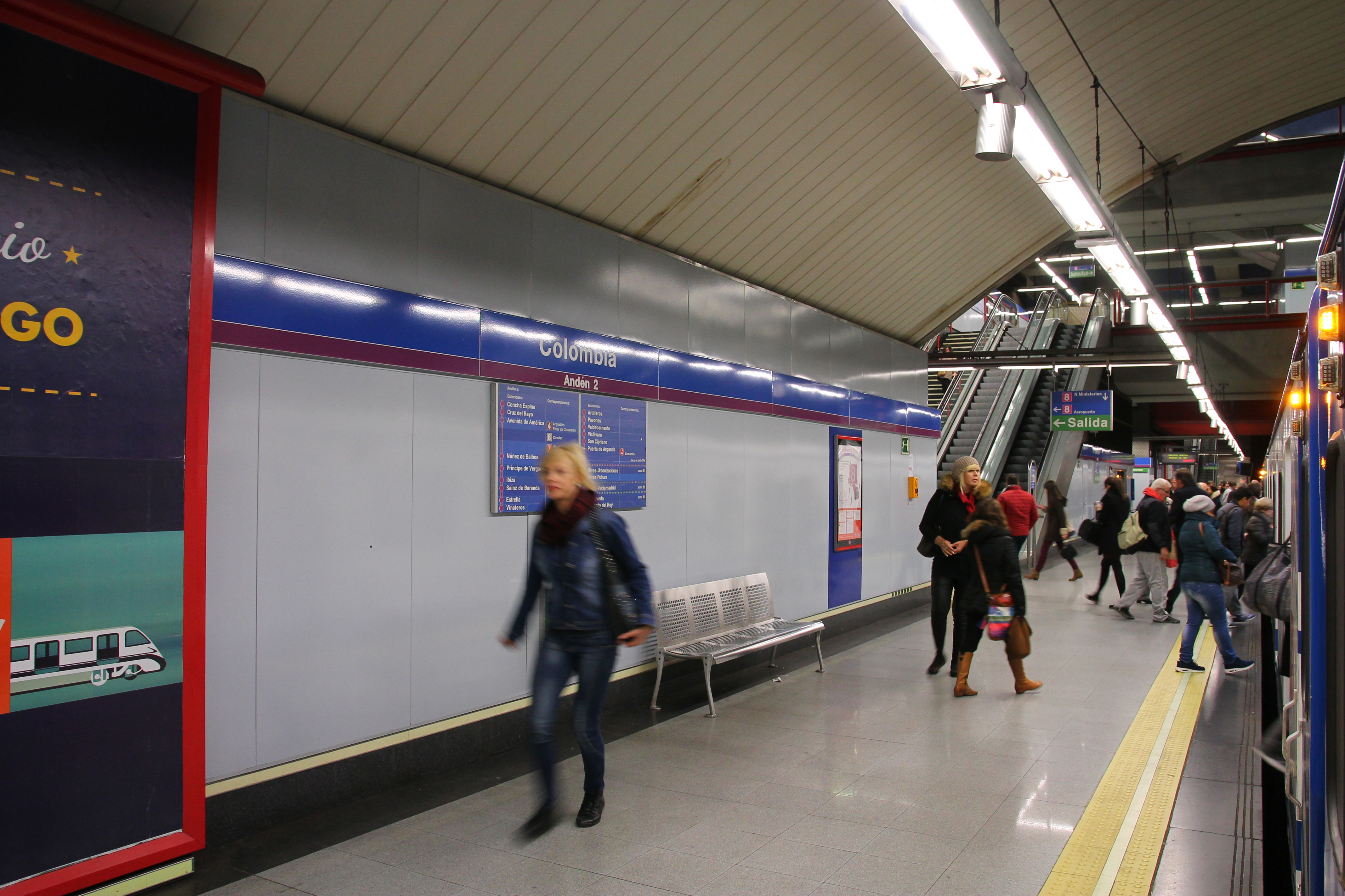 Cocheras de Cuatro Caminos